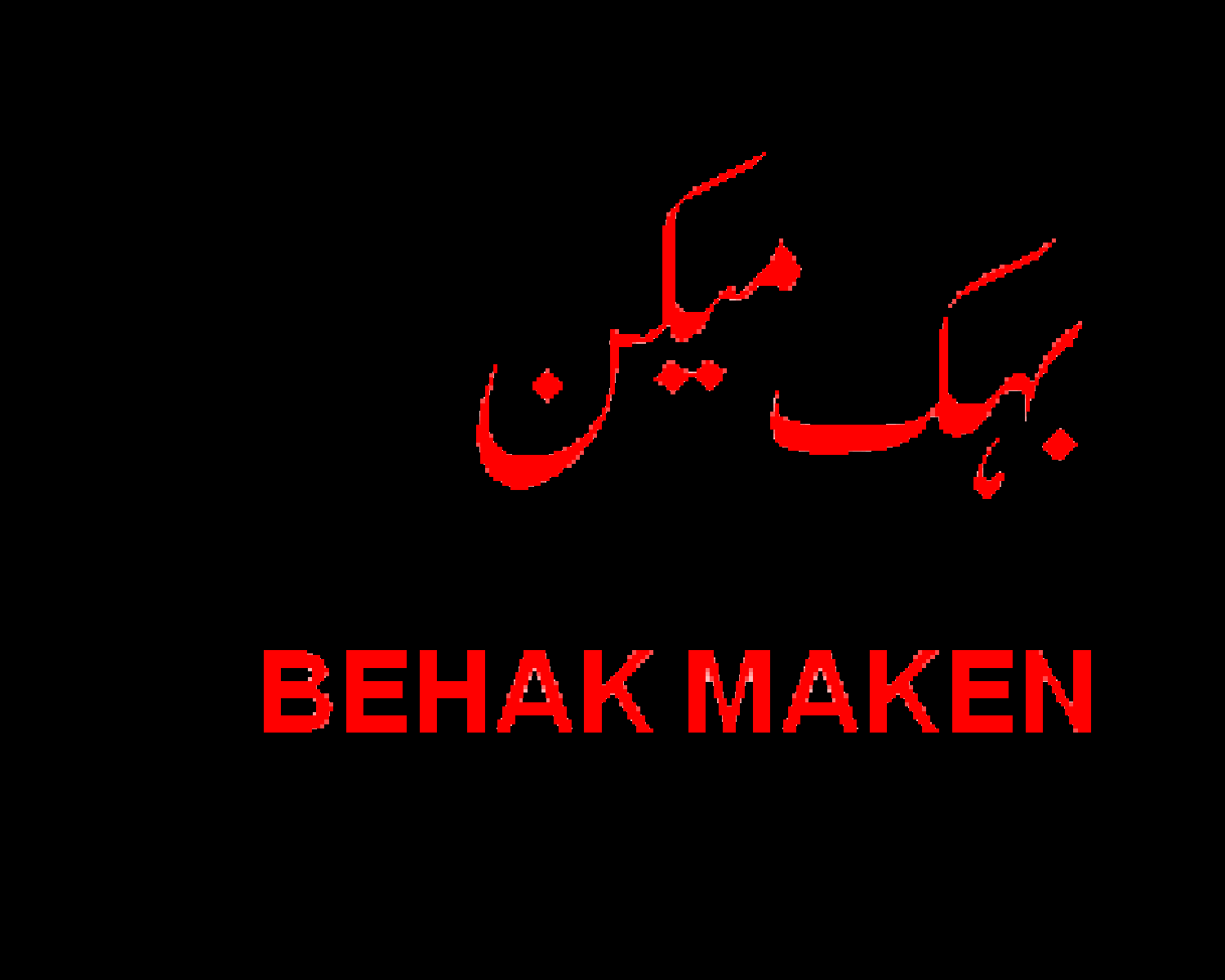 VILLAGE BEHAK MAKEN TEHSIL SARGODHA DISTRICT SARGODHA POPULATION 7000 SECT SUNI CASTE MAKEN Created page by Zia Maken(King Maker)